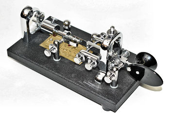 Advertising material, copyright released.